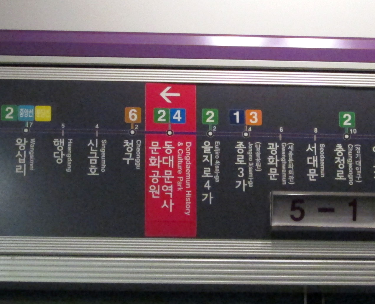 Signage on the Dongdaemun History and Culture Park SMRT Line 5 station in Seoul, South Korea, containing Hangul text written vertically from right to left. Such writing mode is rare in modern-day Korea.